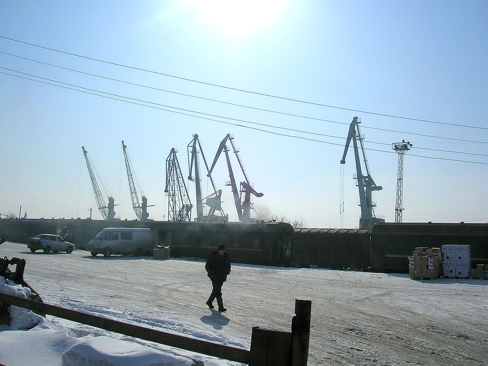 Port at Ob River, Novosibirsk